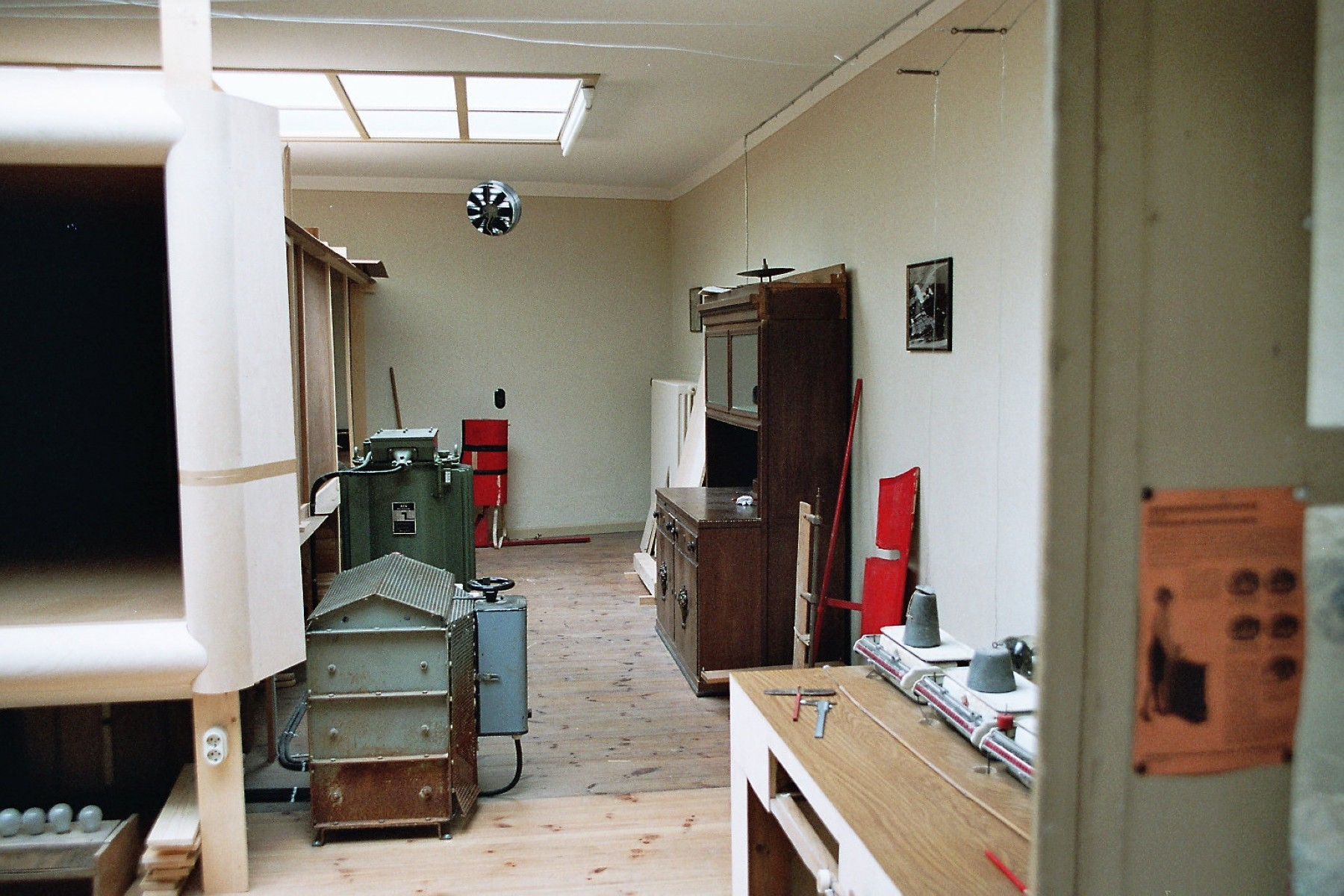 The Focke wind tunnel in Bremen (Germany) after the refurbishment in 2005.